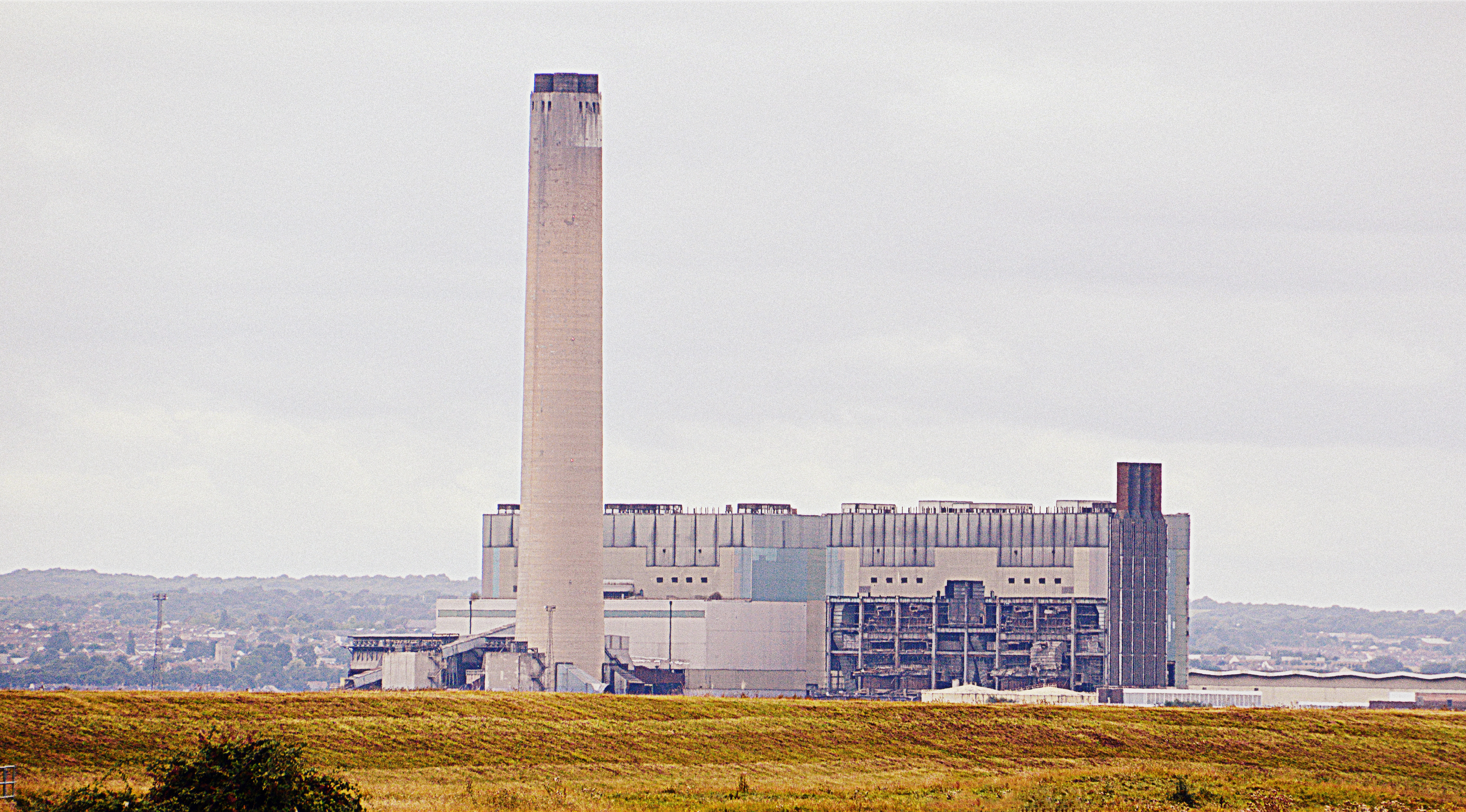 Decommission Kinsnorth power station, partially demolished